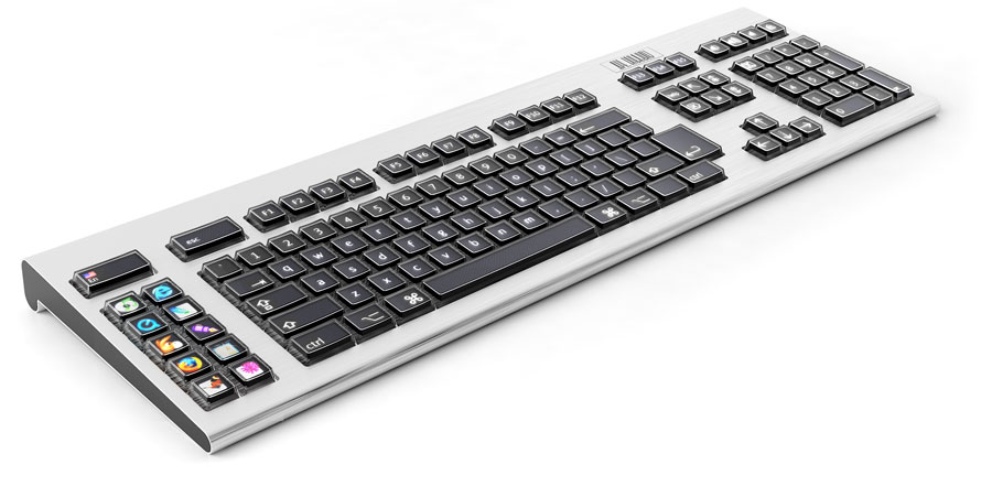 Computer rendered image of Art. Lebedev Studio's Optimus-113 keyboard. Every key contains a little color screen.